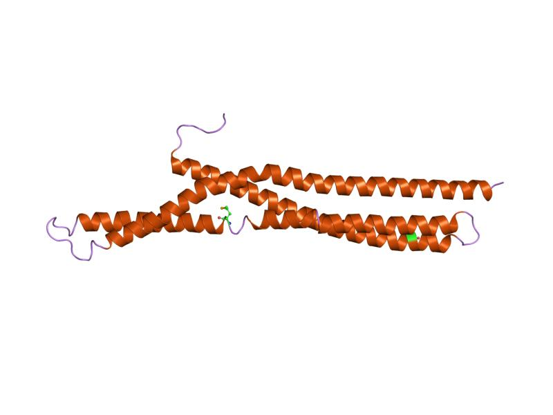 Cartoon representation of the molecular structure of protein registered with 1uru code.